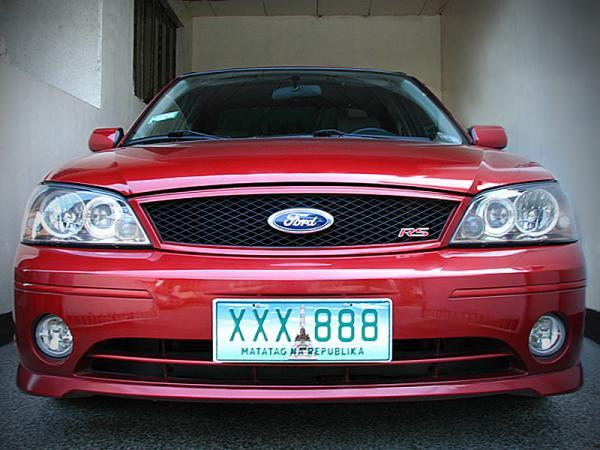 2005 Ford Laser Lynx RS.